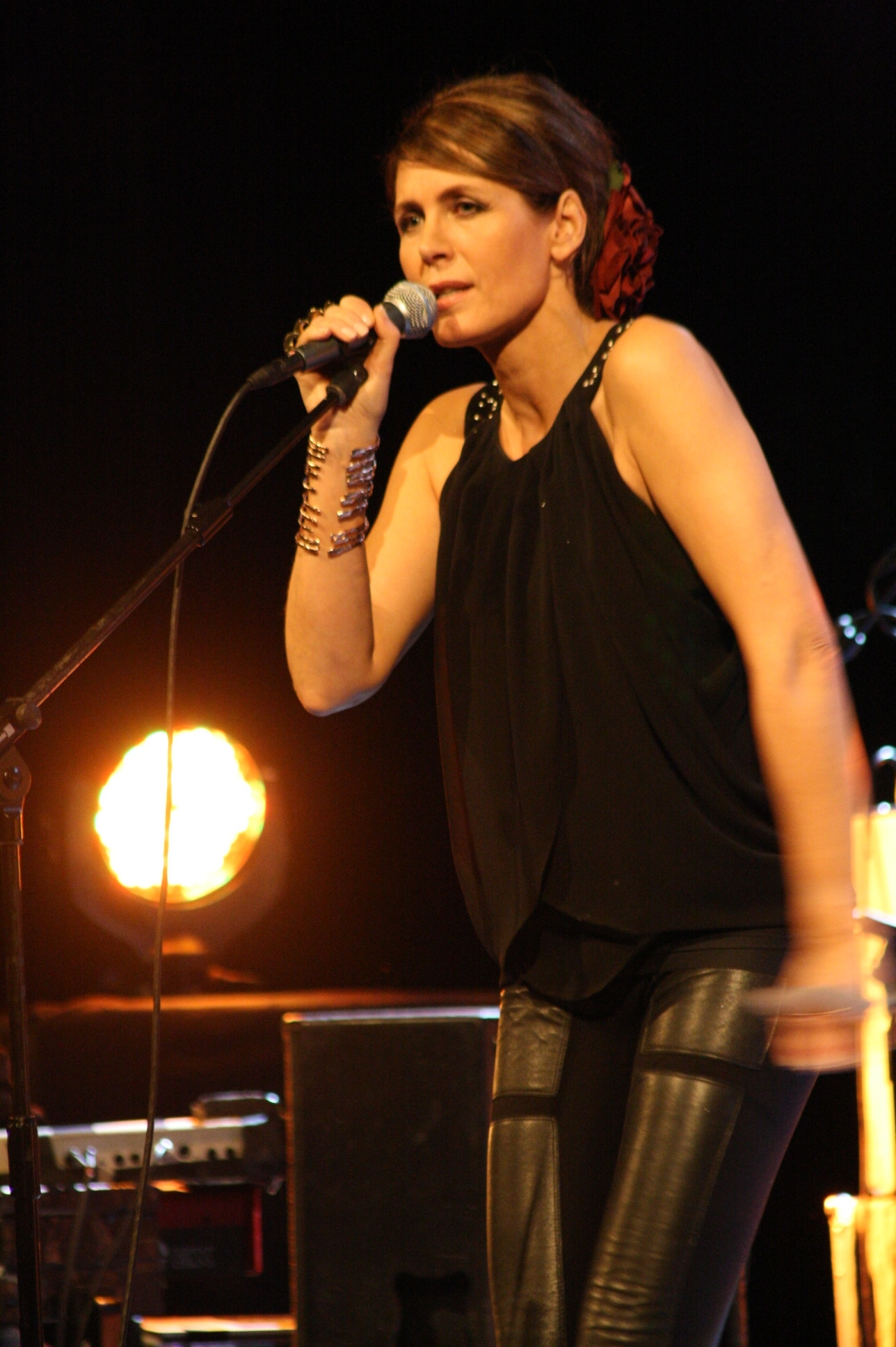 Kari Bremnes, Norwegian Musician, at Theater am Aegi Hannover